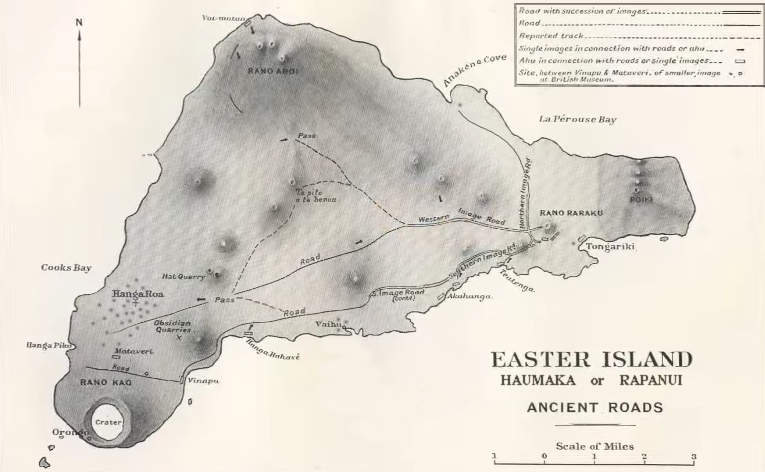 Old map of Easter Is., from Katherine Routledge's works, 1916